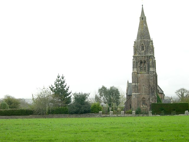 Maryfield Church. The Church of St Philip and St James, Maryfield near Antony House.